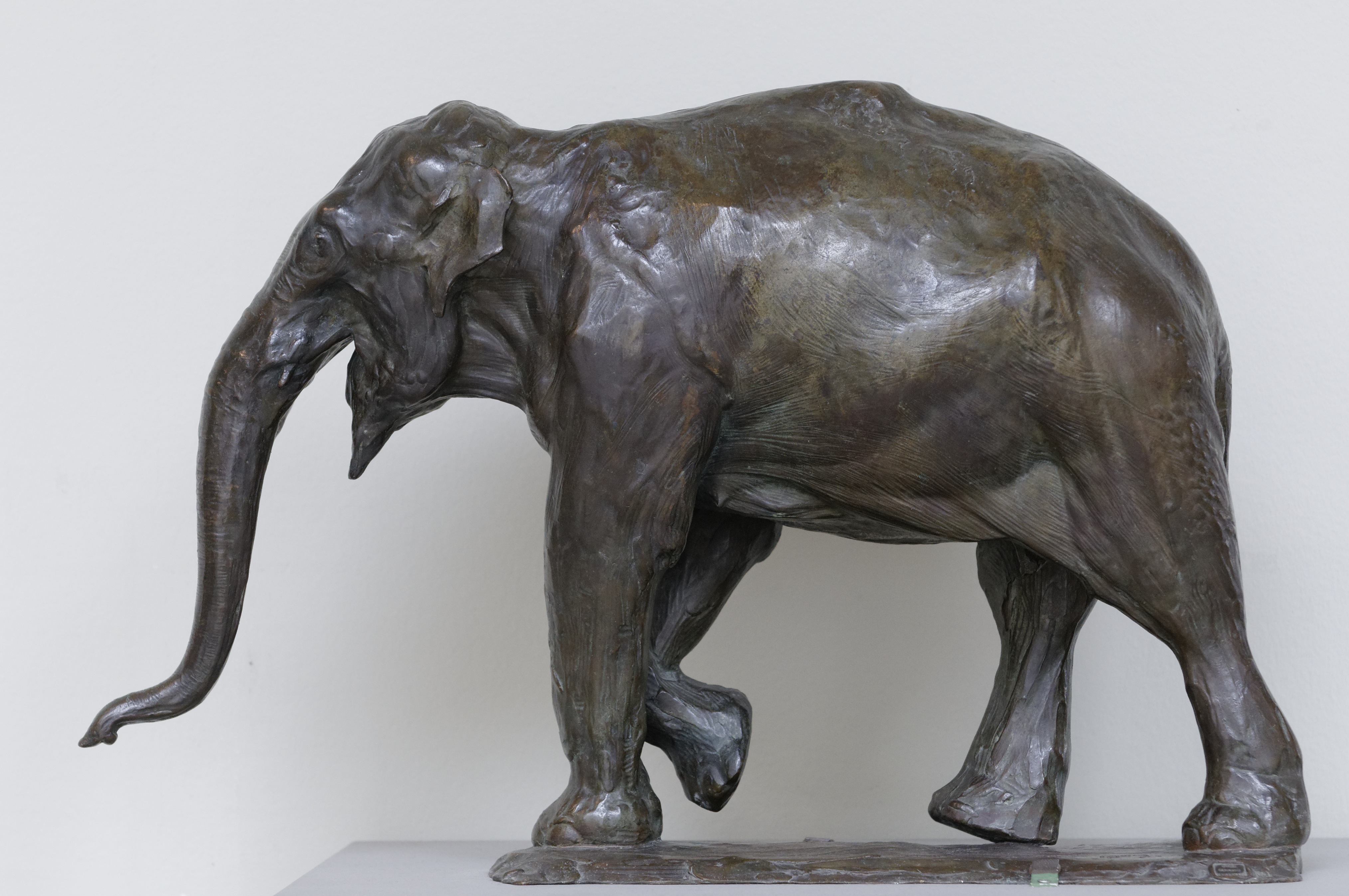 Elephant.